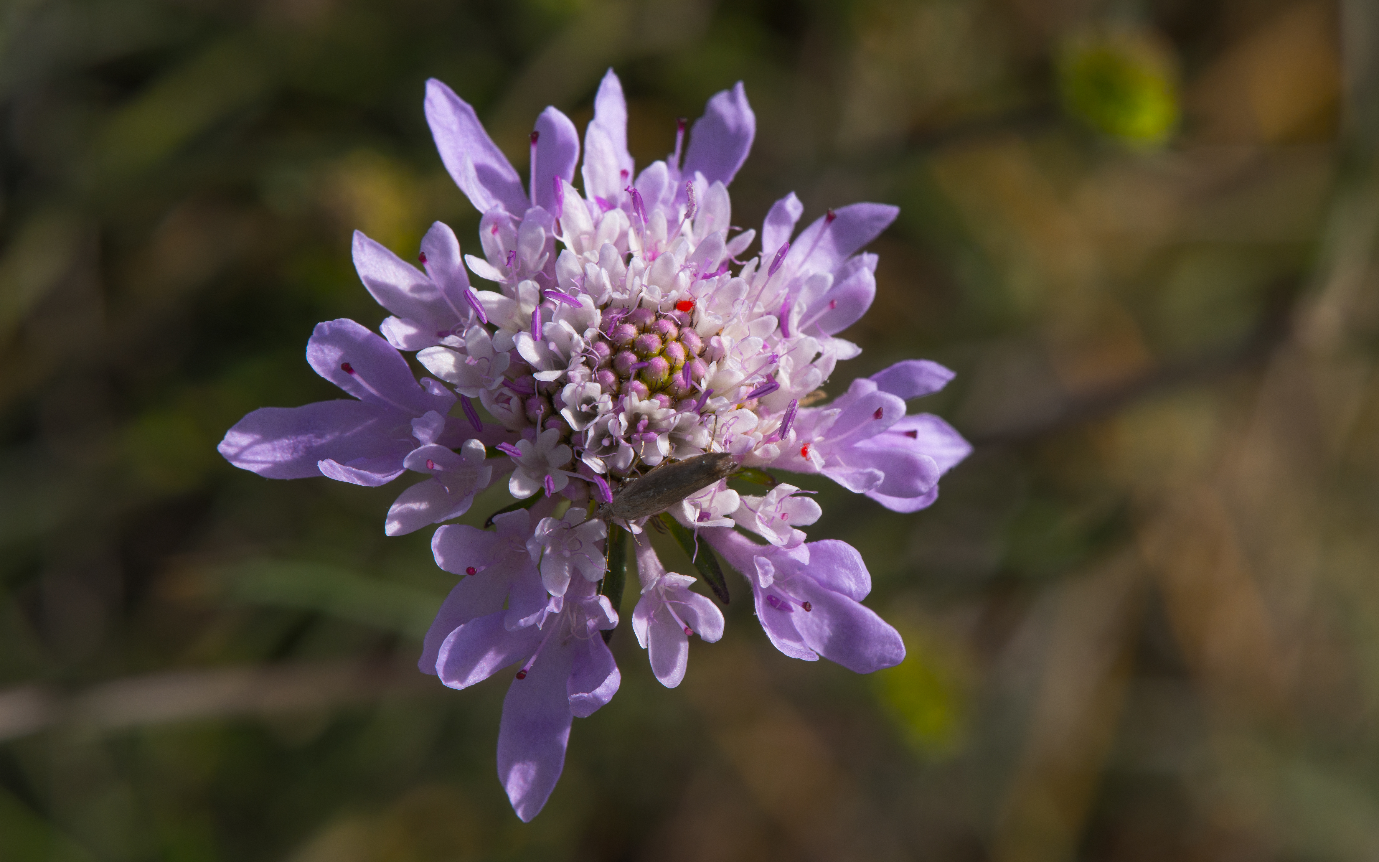 A flower of Scabiosa atropurpurea subsp. maritima (Sweet scabious).